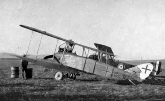 A German DFW C.V reconnaissance aircraft (serial 4432/18) captured on Afule aerodrome, Jenin, North Palestine. An Australian Armstrong-Withworth F.K.8 is visible in the background.